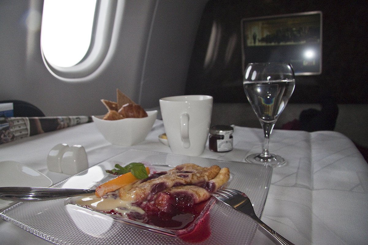 A pleasant wake-up after 8.5 hours of flying...Qatar Airways First Class